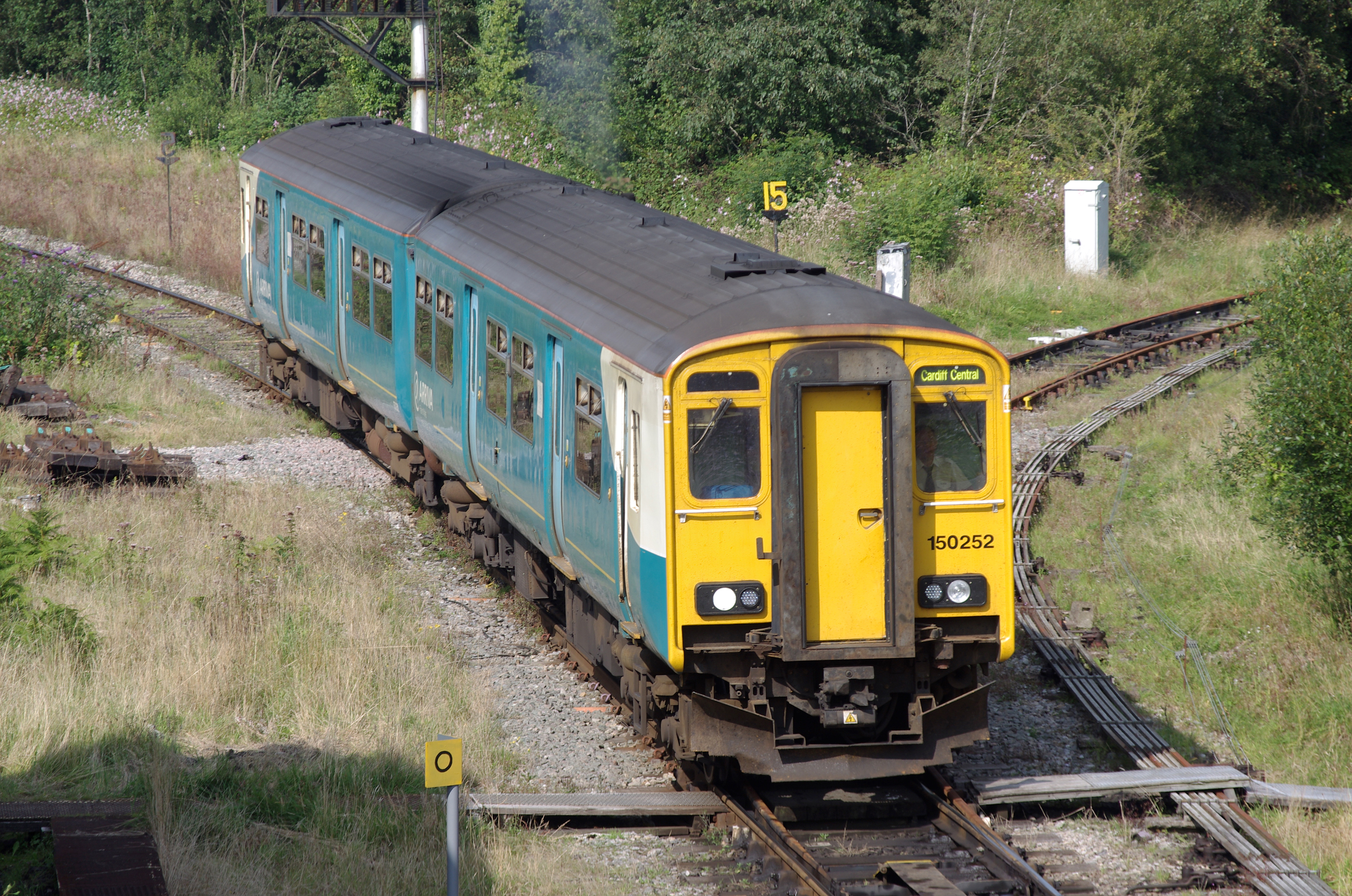 Arriva Trains Wales 150252 passes the signalbox at Tondu with a service to Cheltenham.